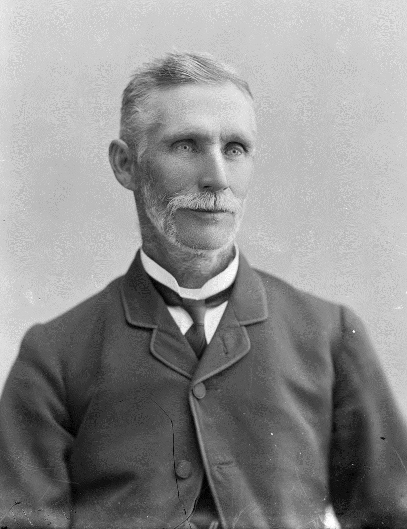 Portrait of Richard Monk with beard and moustache, wearing a dark coloured jacket, a light coloured shirt and tie.